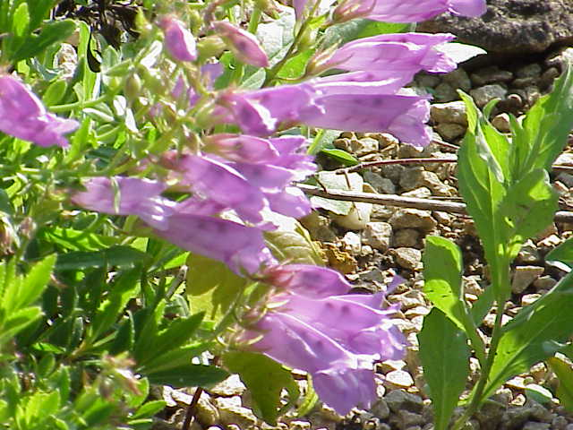 Species: Penstemon fruticosus Family: Plantaginaceae Image No. 1